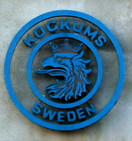 Malmö, Kockums AB building sign located on the horse shoe shaped main building.